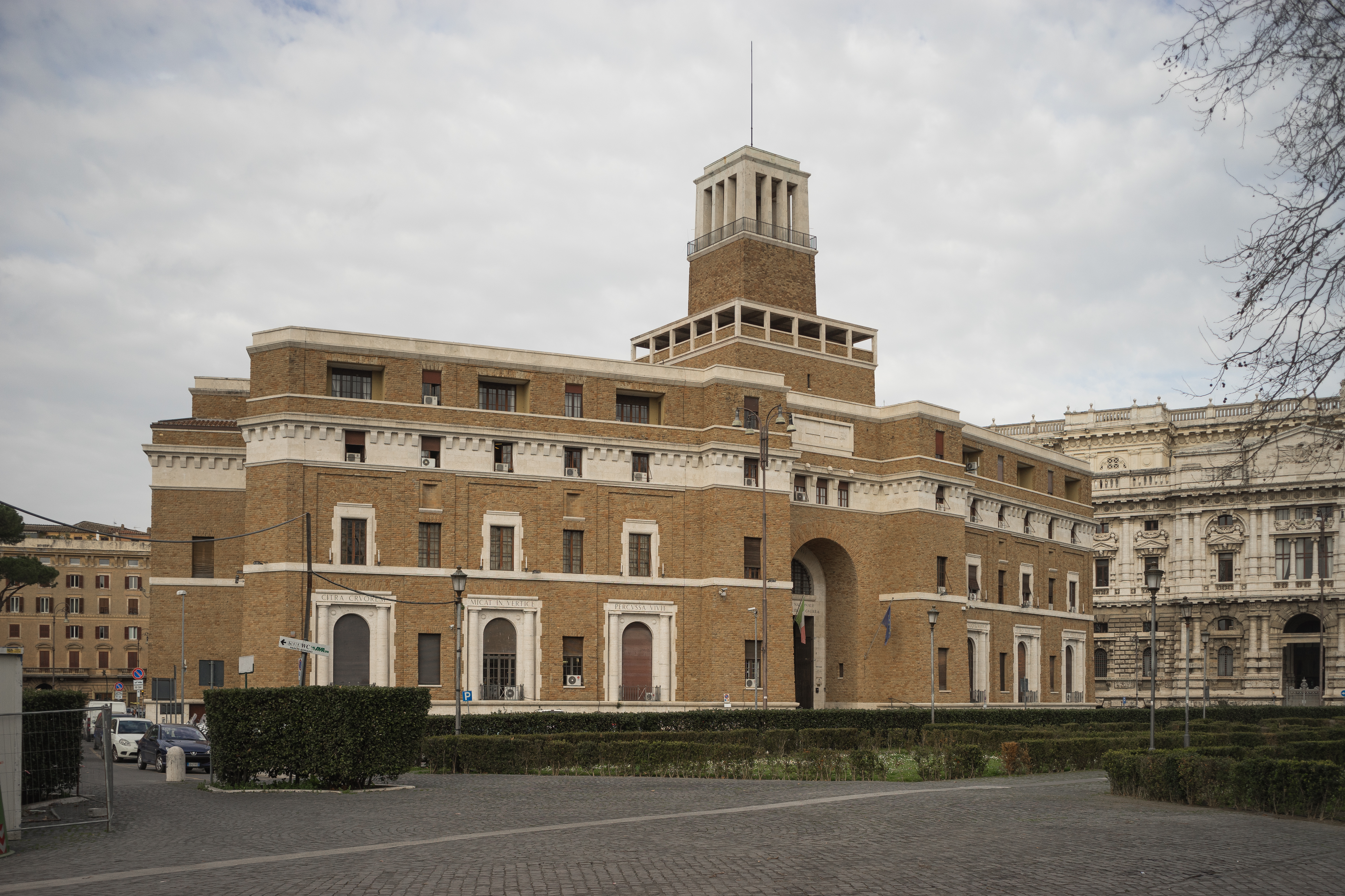 Main seat of the Associazione Nazionale dei Mutilati e Invalidi di Guerra at the Lungotevere Castello in Rome